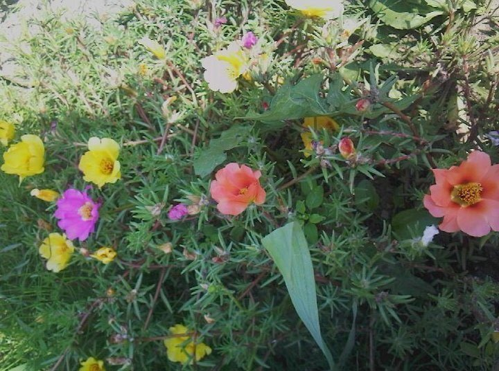 Moss-rose Purslane or Moss-rose (Portulaca grandiflora) in Lónyaytelep, Tranyalvania.